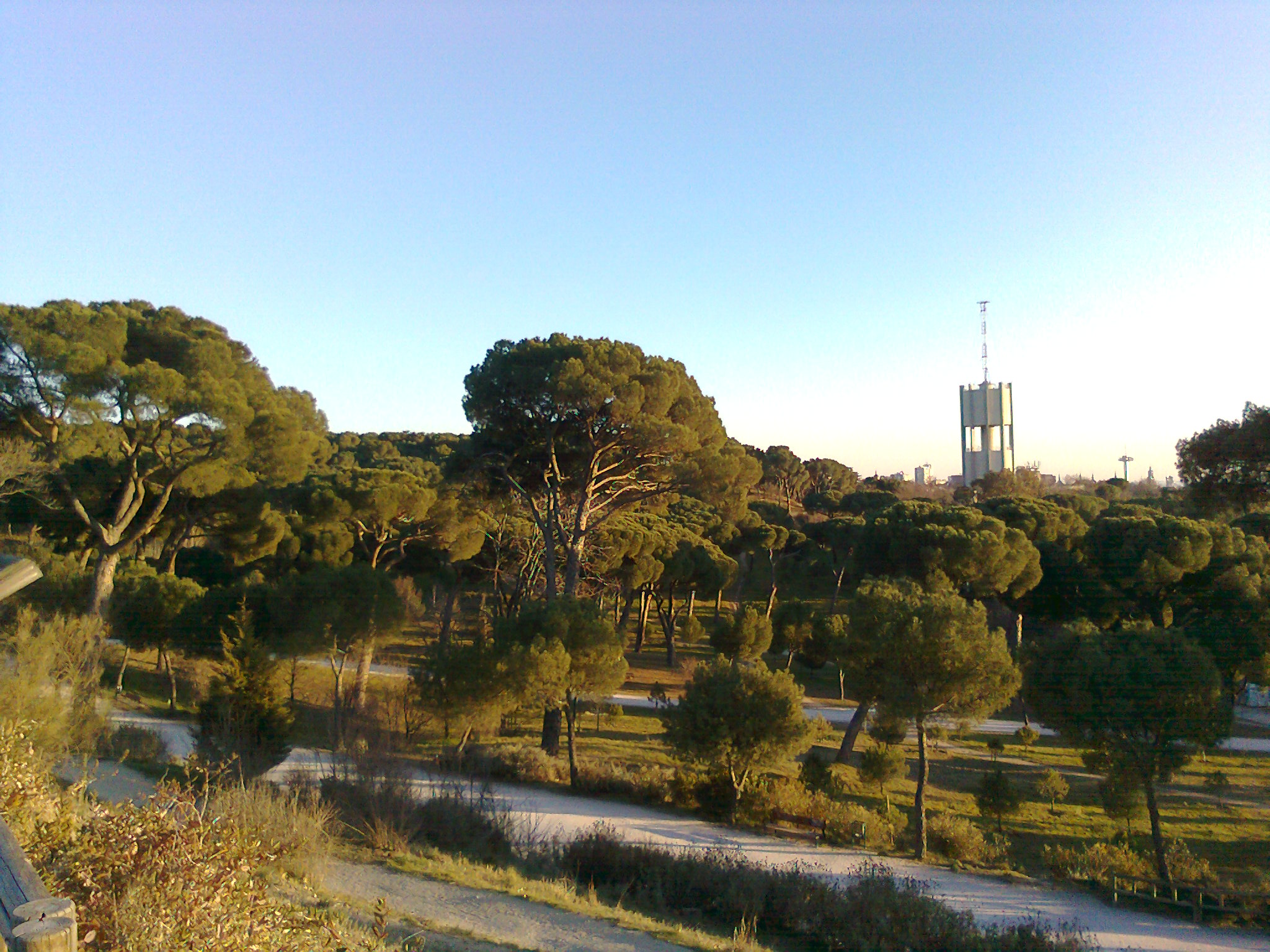 Landscape, Park of La Dehesa de la Villa, Madrid.